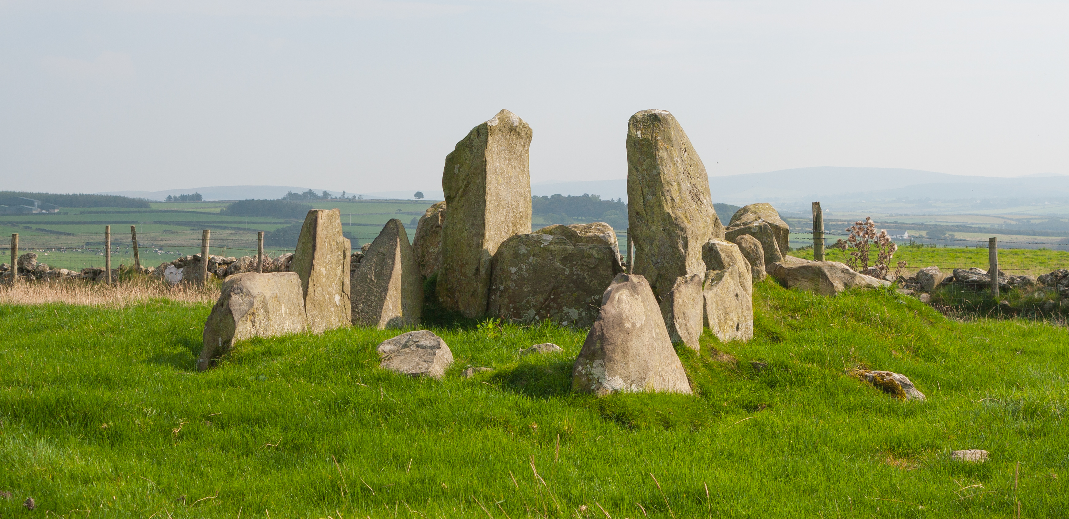 North-west chamber of the court tomb at Laraghirril.